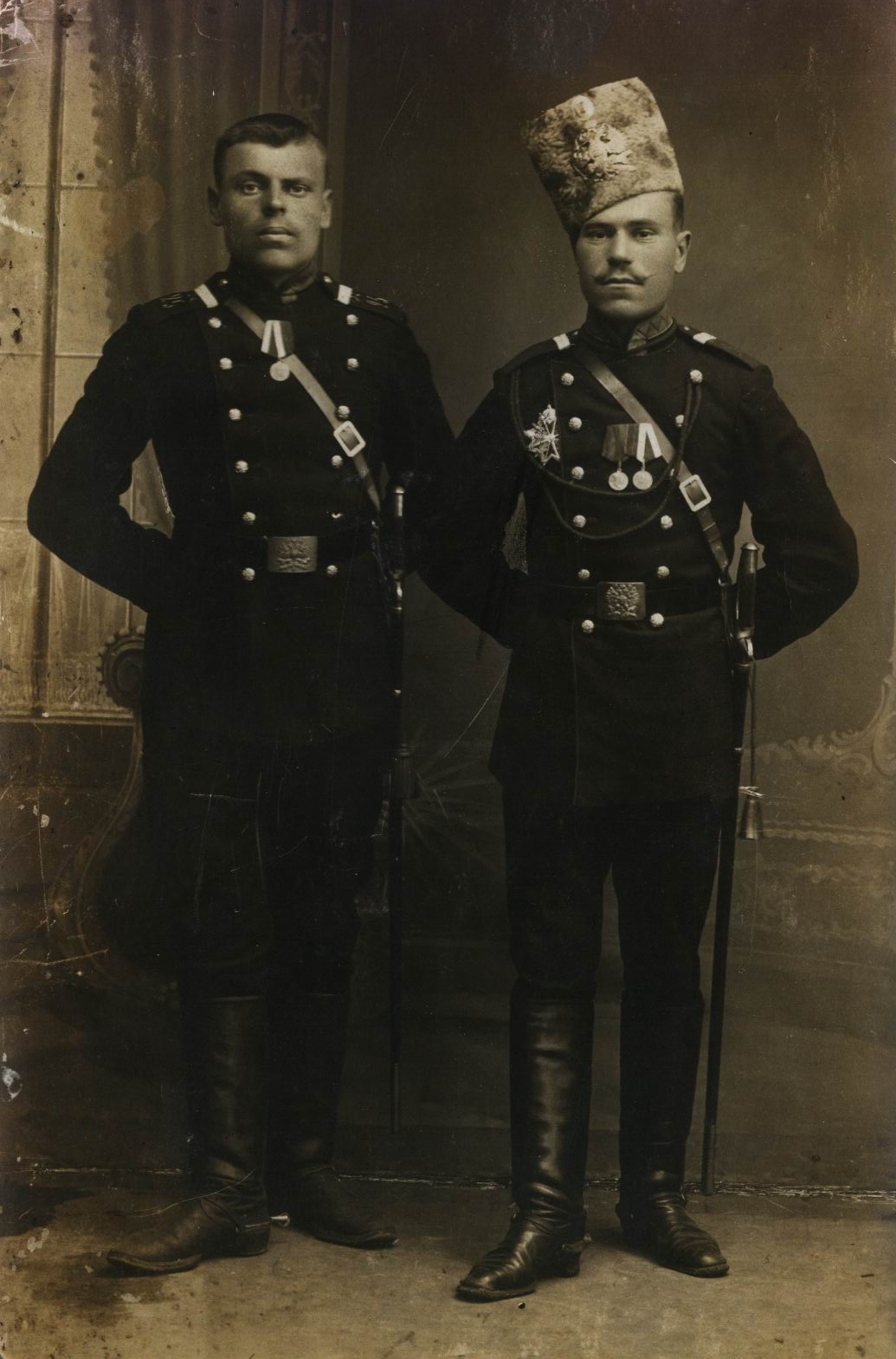 Junior NCOs of the Imperial Russian Army before the deployment to World War I.; North-West station, July 24, 1914.